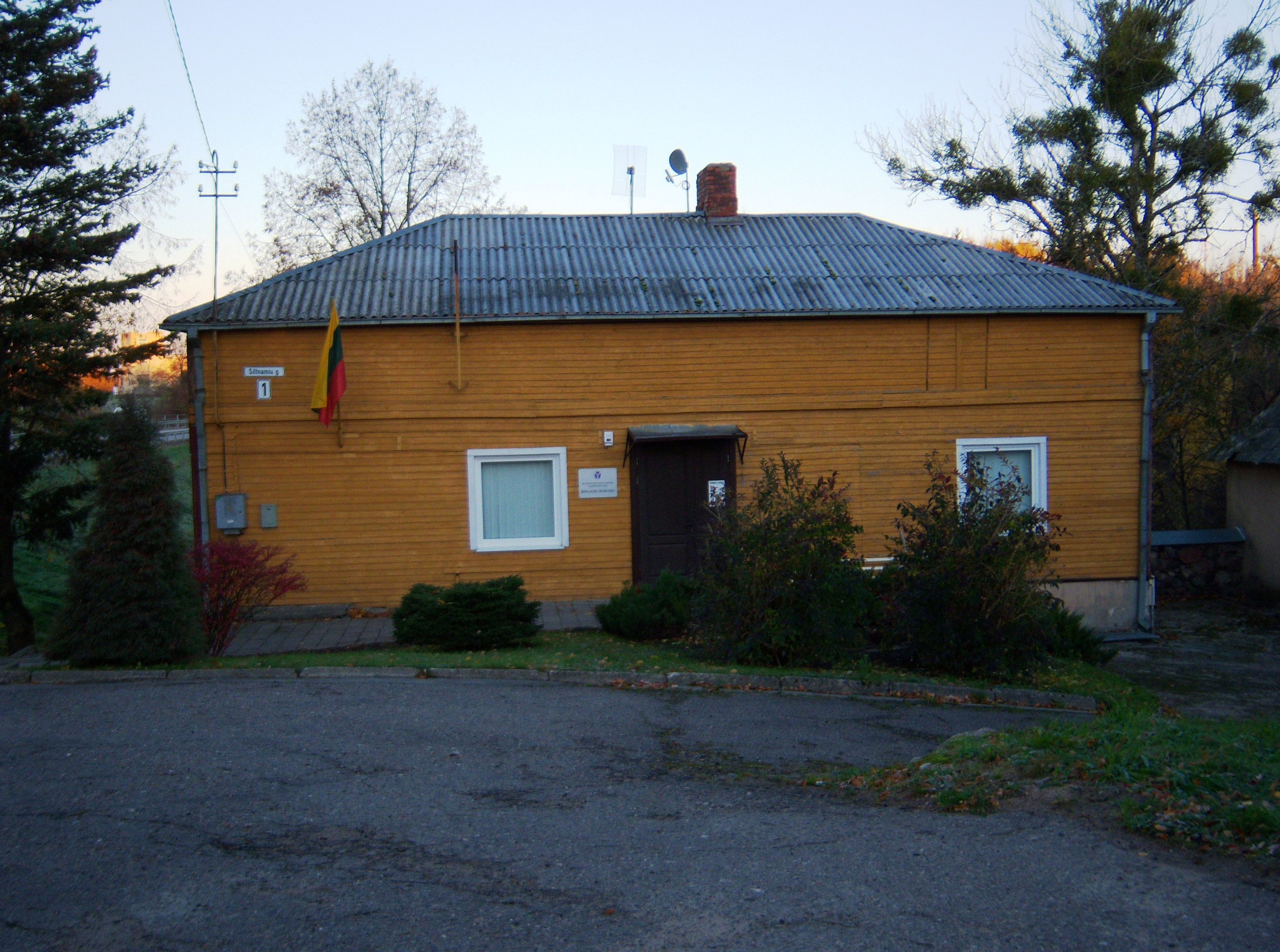 Ringaudai Eldership, Noreikiškės, Kaunas district, Lithuania